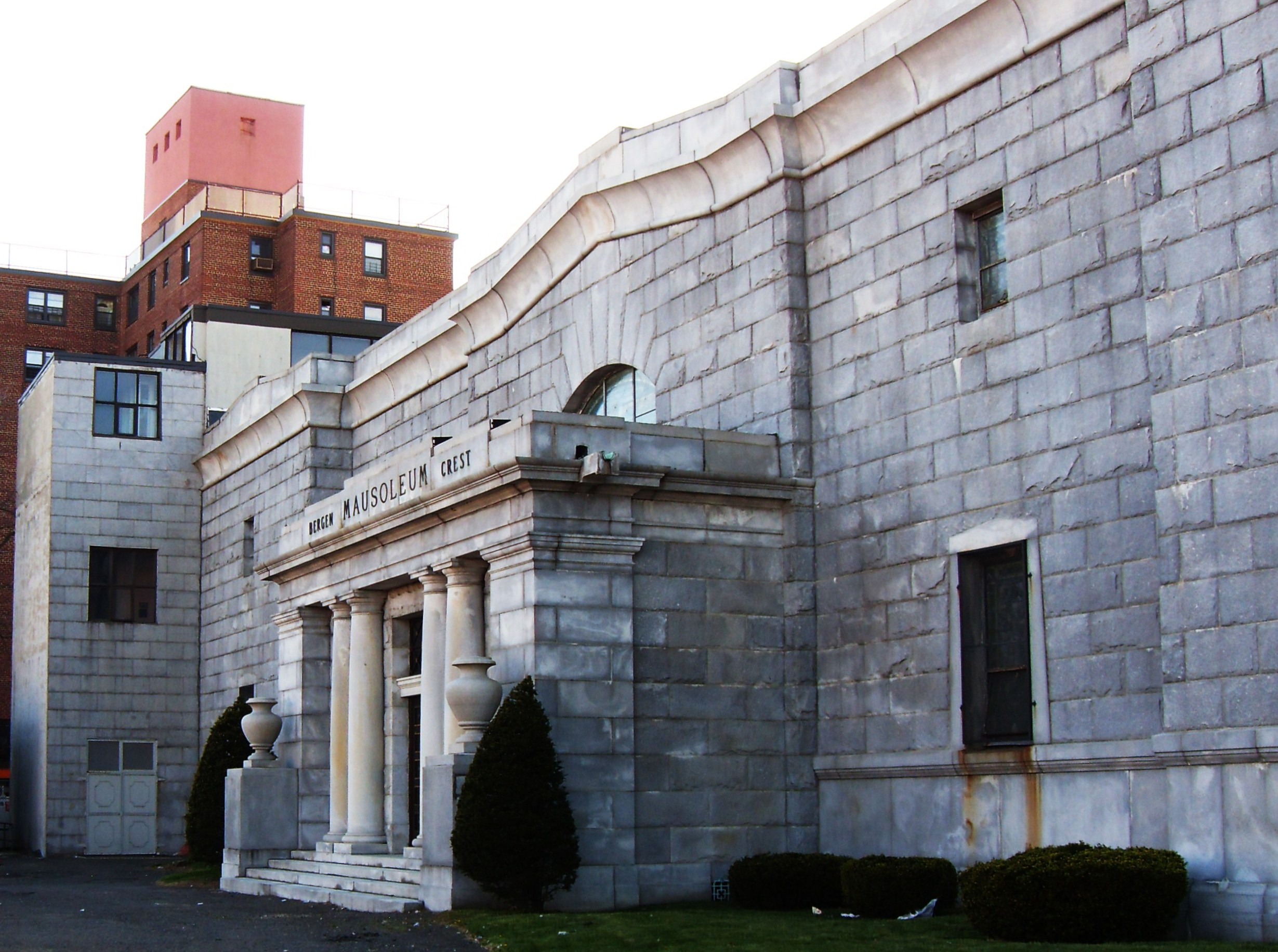 Cropped